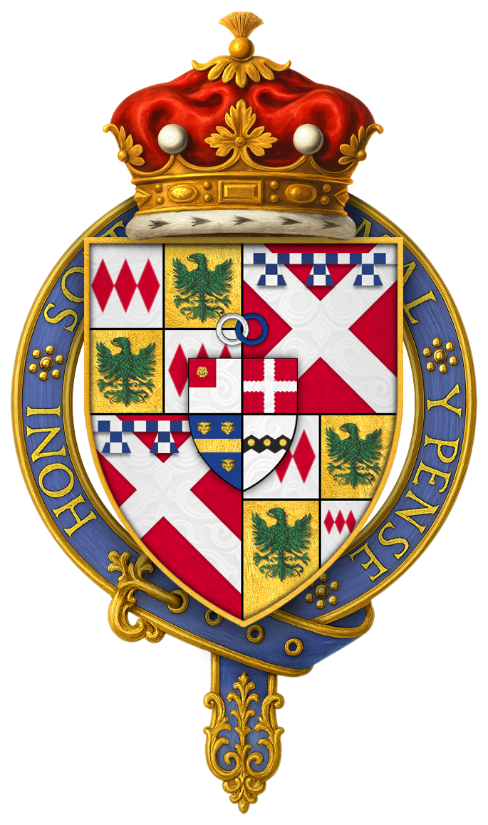 Quartered arms of Sir John Nevill, 1st Marquess of Montagu, KG HOPE, W. H. St. John, The Stall Plates of the Knights of the Order of the Garter 1348 – 1485: A Series of Ninety Full-Sized Coloured Facsimiles with Descriptive Notes and Historical Introductions, Westminster: Archibald Constable and Company LTD, 1901. “Plate LXVIII - Sir John Nevill, Lord Montagu, K.G. 1461-1471… the shield of arms is quarterly: 1 and 4, silver three fusels in fess gules (for Montacute) quartering gold an eagle vert the beak and legs gules (for Monthermer); 2 and 3, gules a saltire silver and a label goony silver and azure (for Nevill); with an escutcheon of pretense, quarterly: 1, silver a quarter gules and a rose gold in the quarter (for Bradestone); 2, gules a cross engrailed silver (for Ingoldsthorpe); 3, azure a fess and three leopards heads gold, on the fess a ring azure for difference (De la Pole); 4, silver a dance sable and three bezants on the dance (for De Burgh).” Lord Montagu's stall plate remains intact within the eleventh stall, on the south side of the chapel.